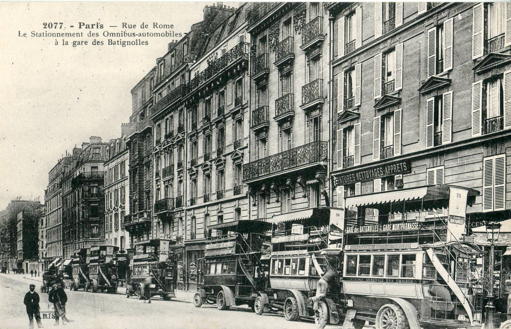 File